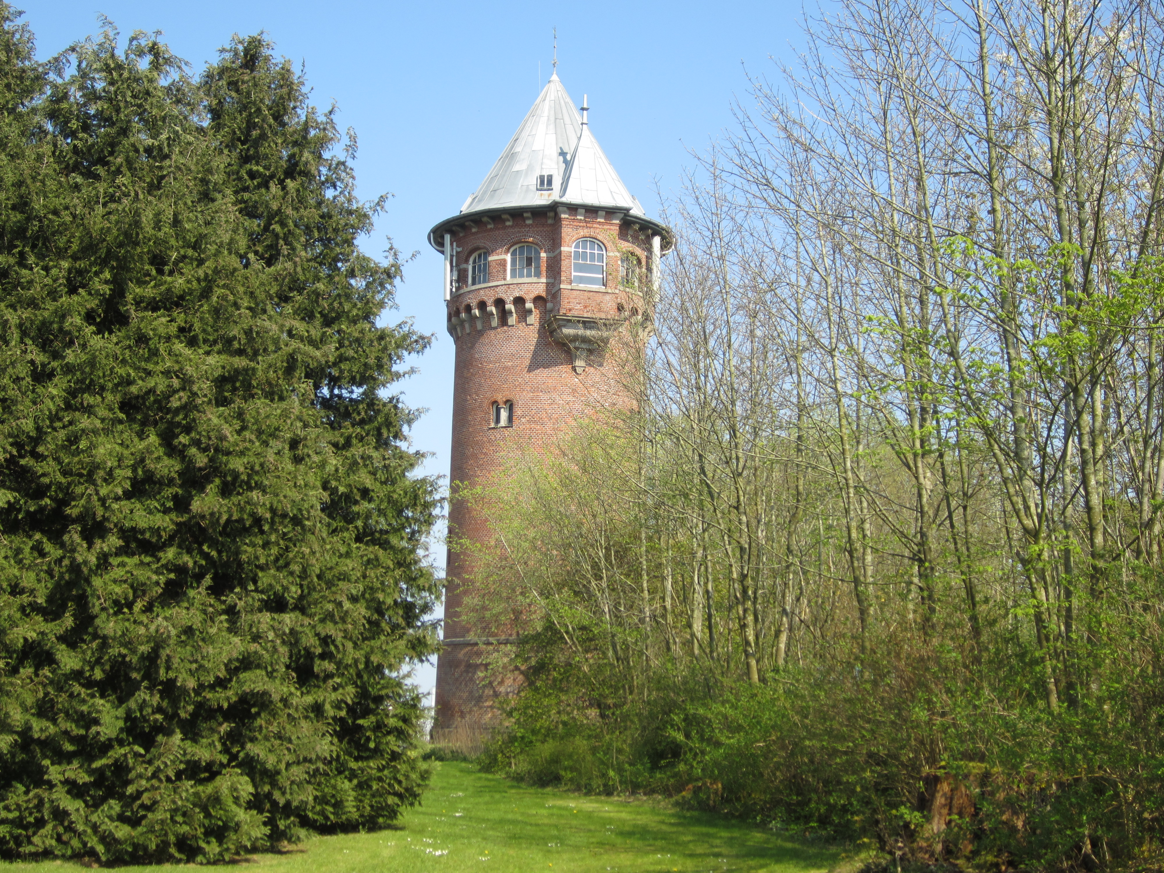 The water tower "Brejning Vandtårn" in the small town "Brejning". The town is located in Vejle Kommune, South-Central Jutland in southern Denmark.